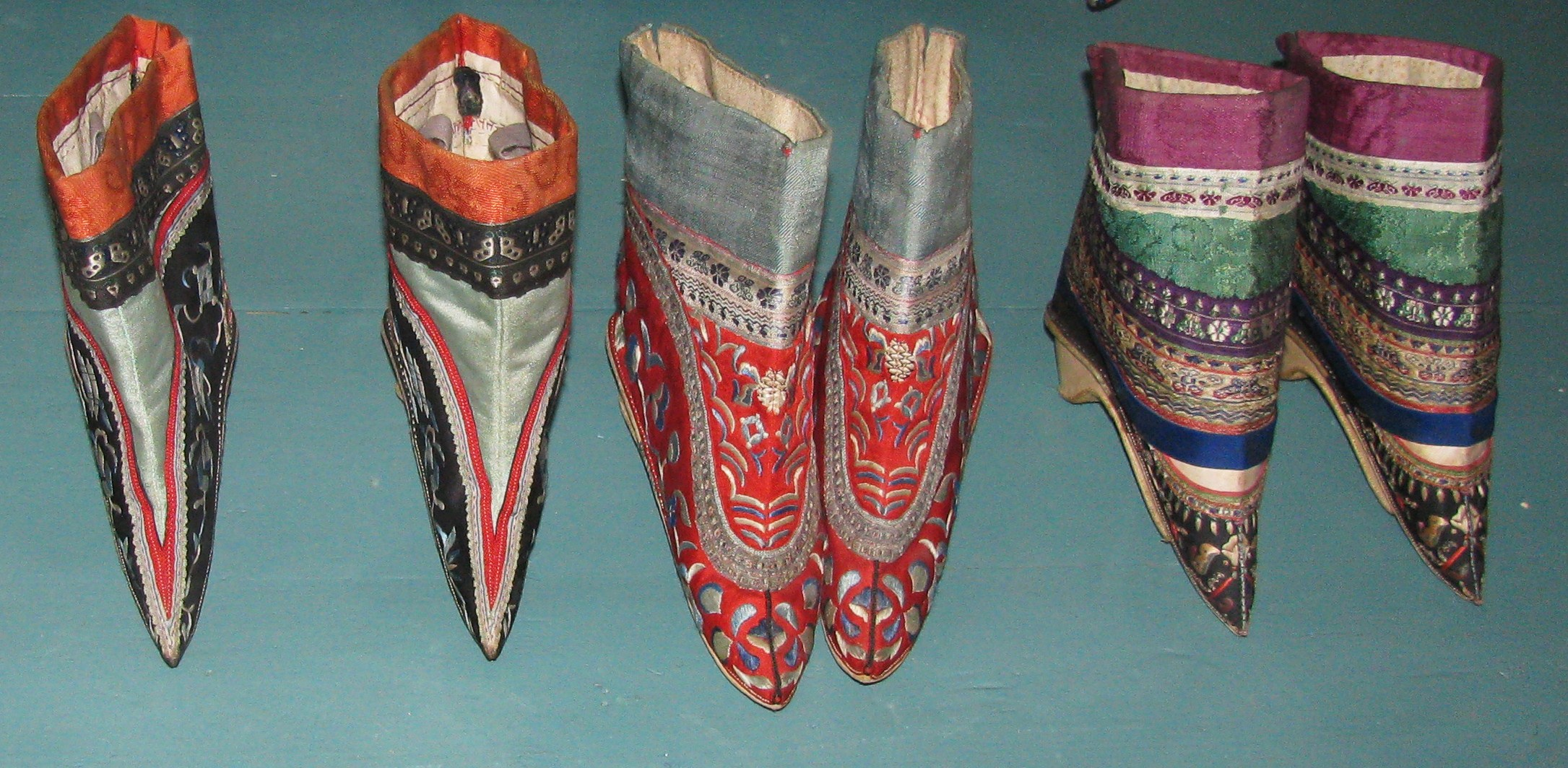 Shoes for bound child feet and lady´s feet, China. Missionary Museum, Steyl, The Netherlands.